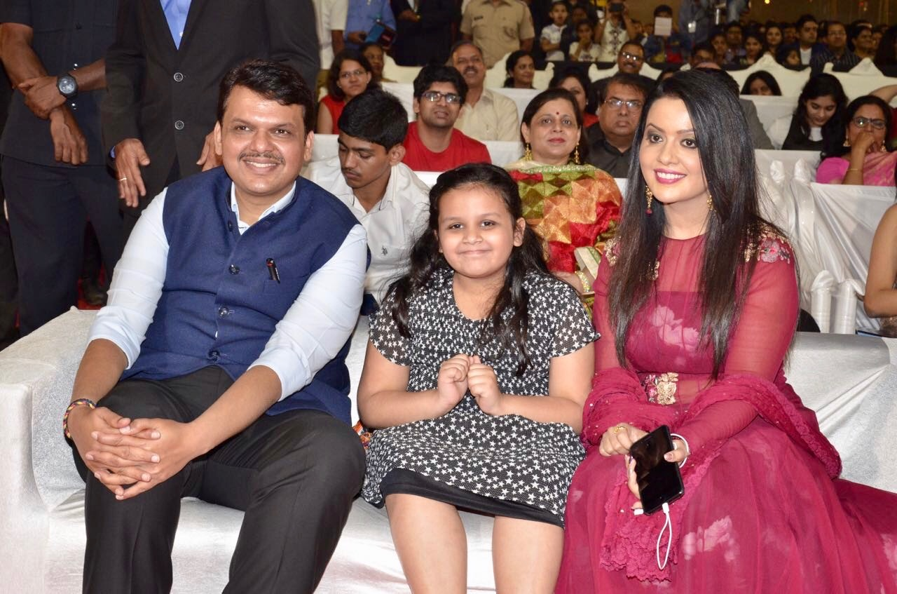 Amruta Fadnavis with Husband Devendra Fadnavis and Daughter Divija Fadnavis